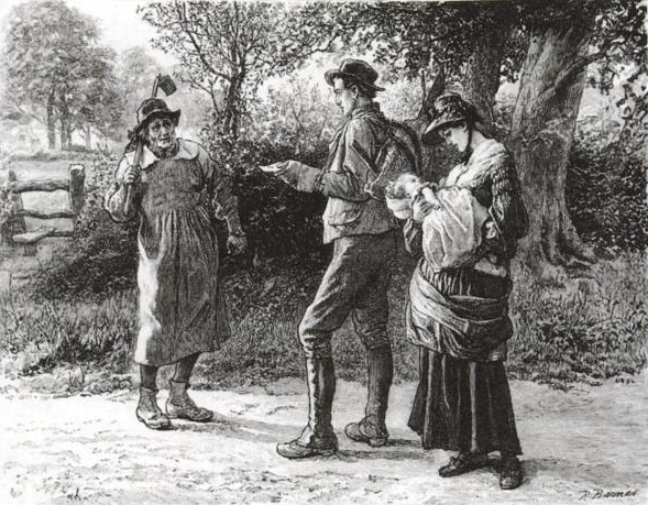 'Hay-trussing — ?' said the turnip-hoer, who had already begun shaking his head. 'O no.' From Robert Barnes's illustrations for the 1886 weekly serialised edition of Thomas Hardy's novel The Mayor of Casterbridge. This illustration, the first, depicts the protagonist, Michael Henchard, on the way to a fair to sell his wife and baby daughter.